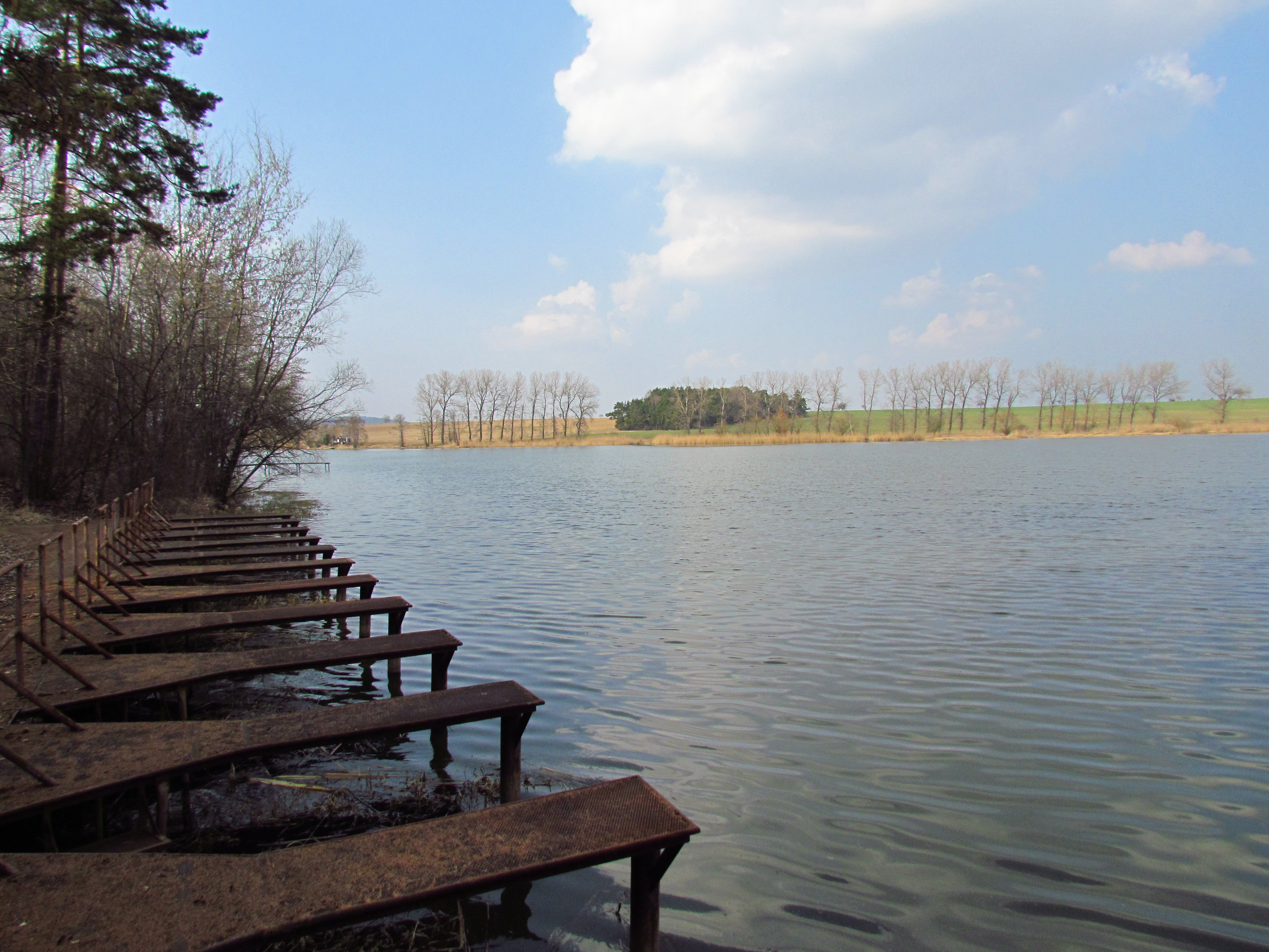 Steklý pond near Hvězdoňovice, Třebíč District.